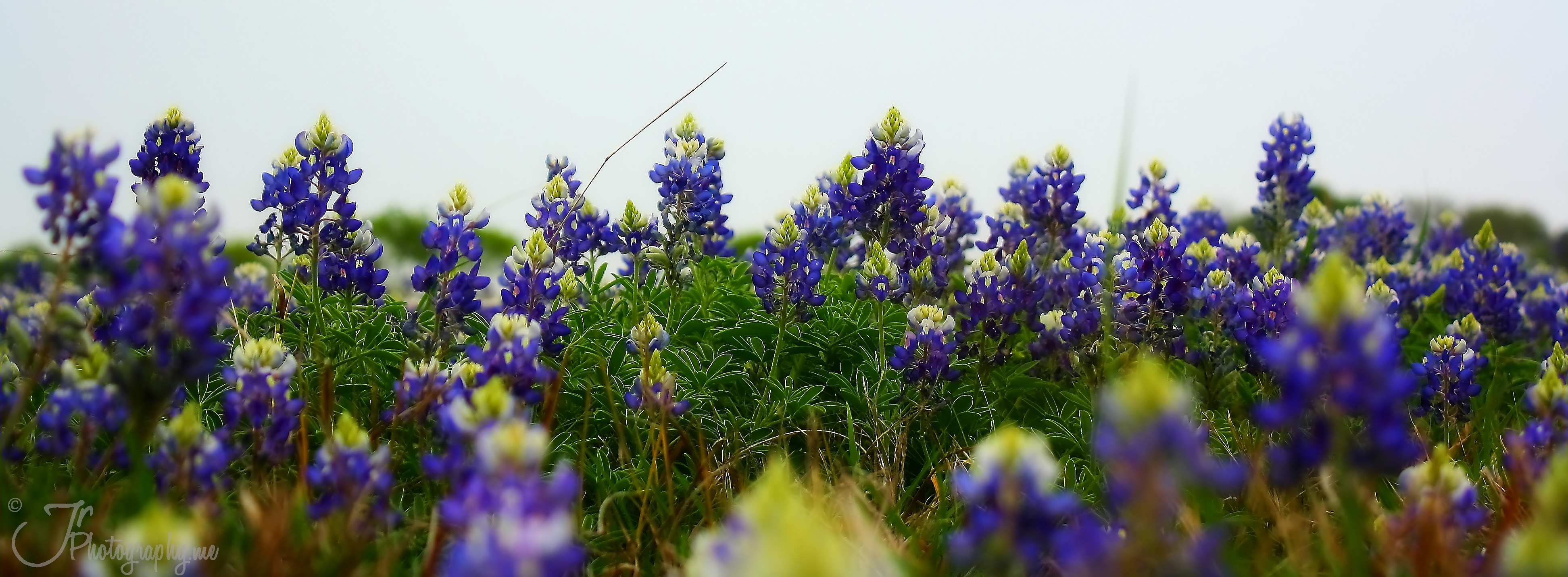 Bluebonnets New Braunfels, Texas